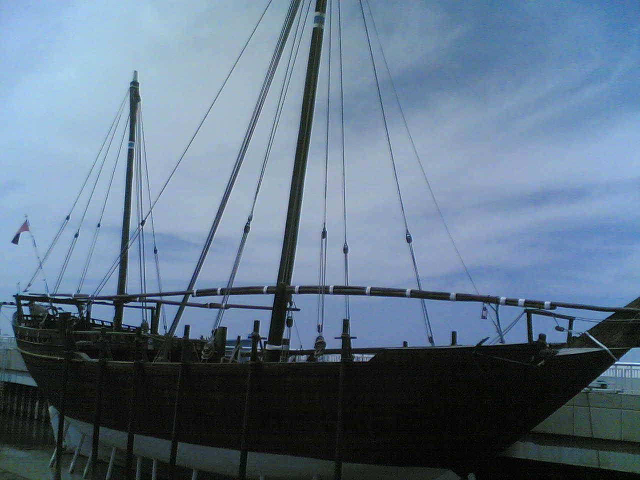 this is an image of a bom ship